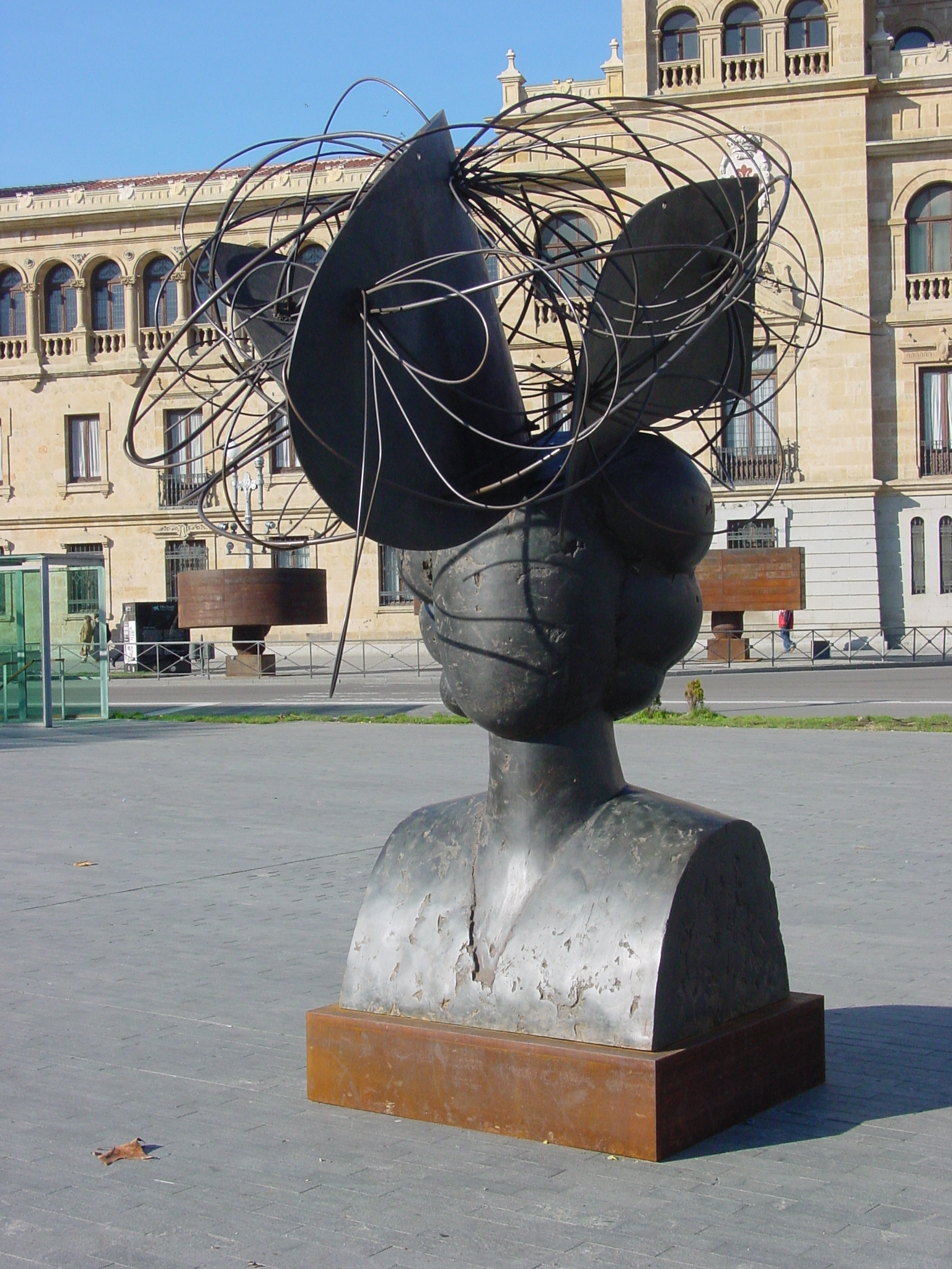 Exhibition of sculpures by the Spanish artist Manolo Valdés in the streets of Valladolid, December 2006.